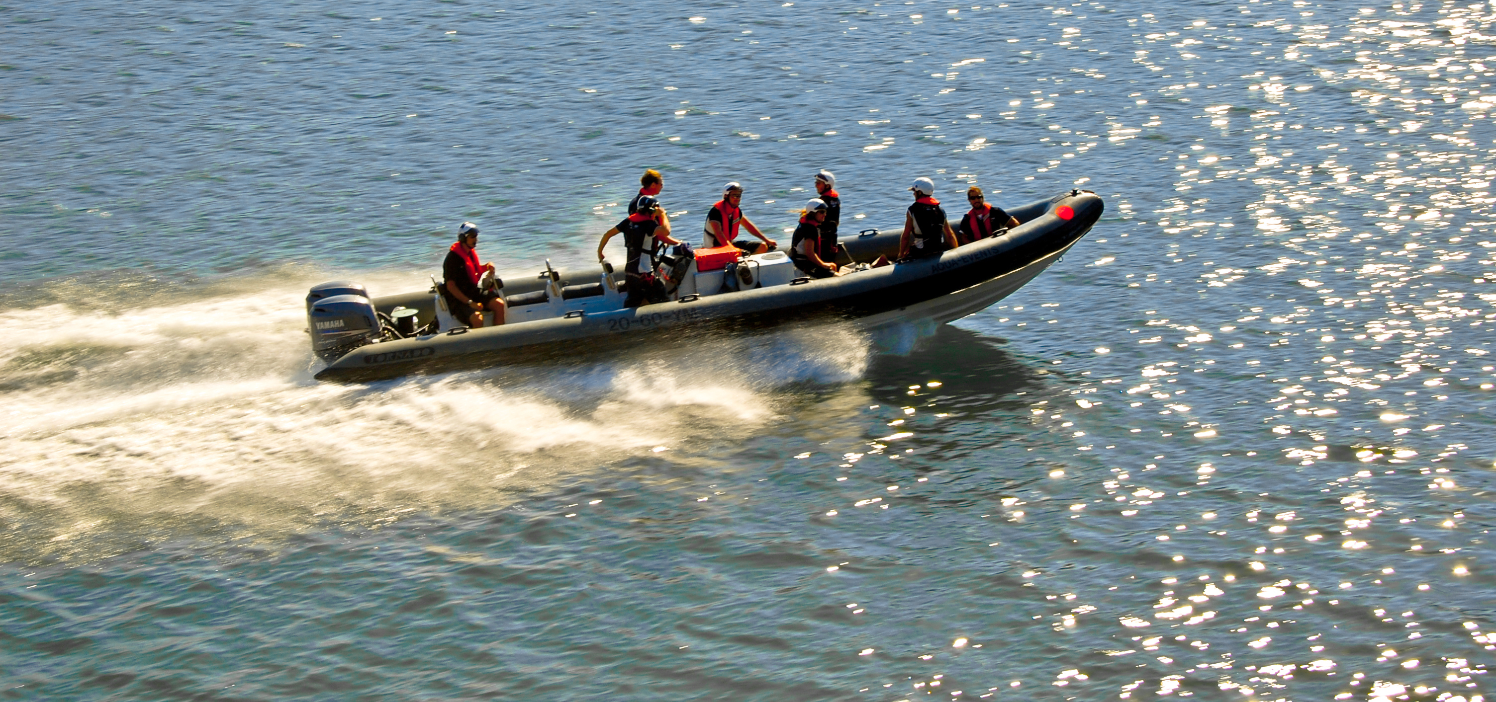 Red Bull Air Race 2007